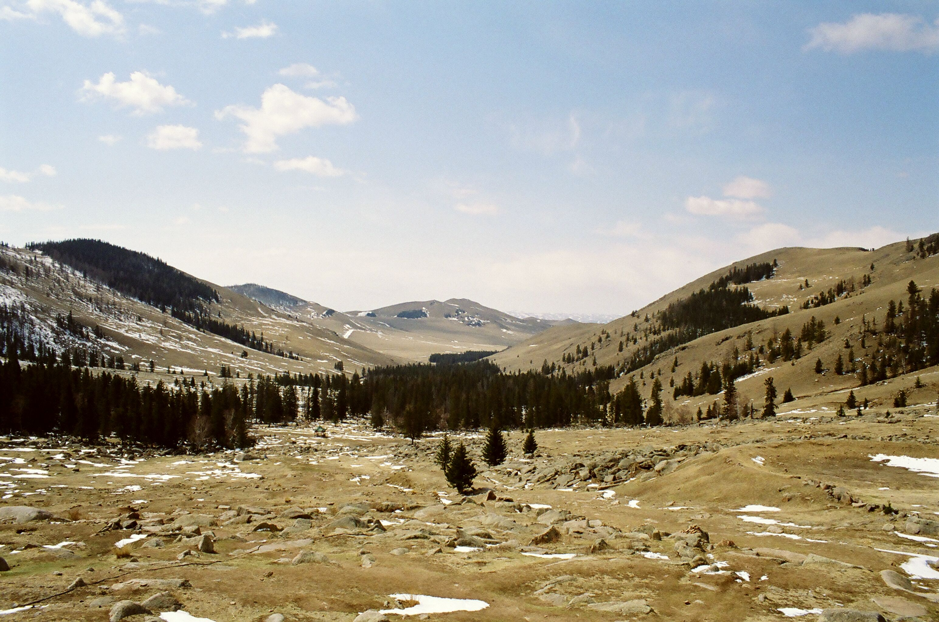 Bogdkhan Uul Strictly Protected Area, Mongolia